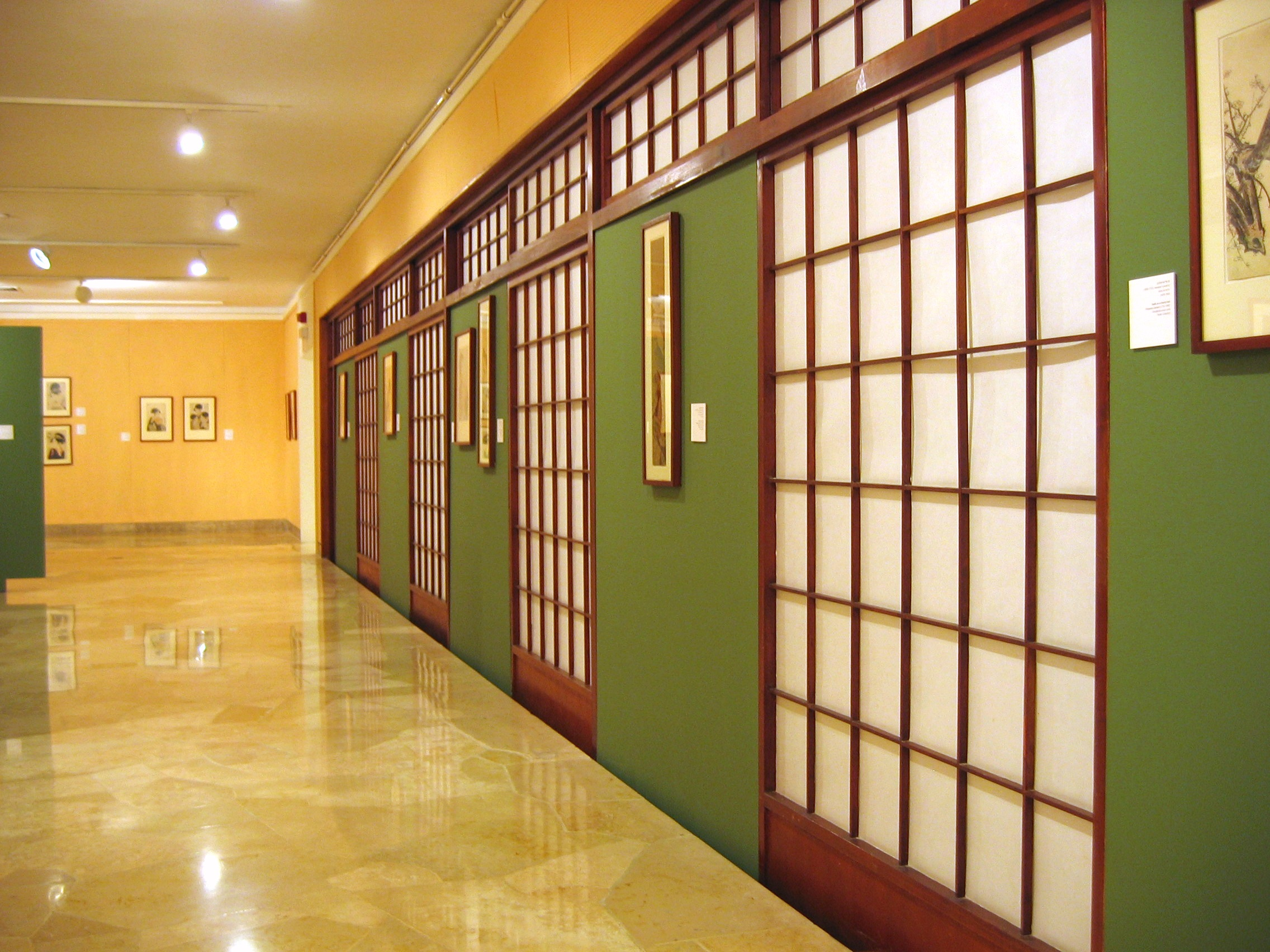 Taken by Asaf Elron on April 1st, 2006.